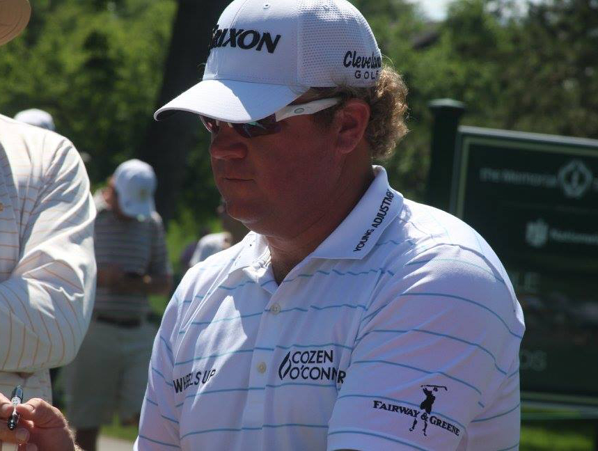 William McGirt signs autographs at the 2017 Memorial Tournament.